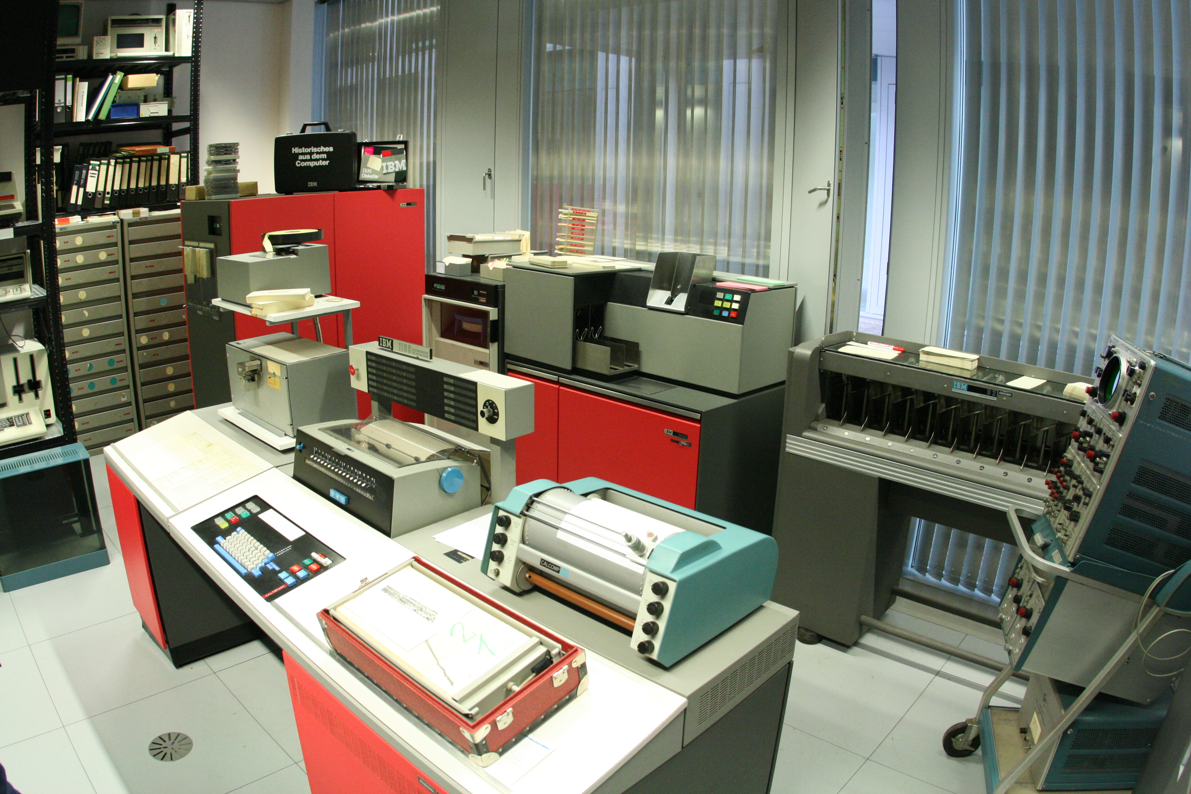 IBM 1130 computer at Computer Museum Stuttgart, including (clockwise) paper tape reader and punch, additional 2315 disk drives, IBM 1442 card reader/punch, IBM 82 punched card sorter, Tektronix oscilloscope and IBM 1627 plotter.